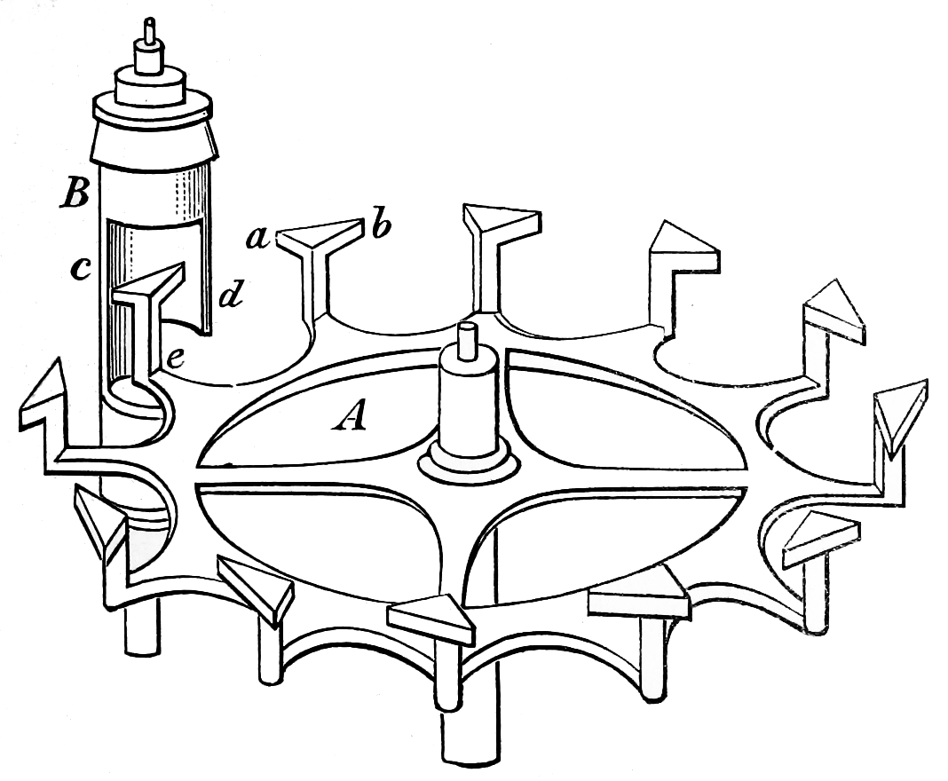 Diagram of a cylinder escapement, an escapement used in pocketwatches from the 18th to the 20th century. from "Tidens naturlære" (Nature of time) 1903 by Poul la Cour, Ill. 27. An escapement is a linkage in a mechanical watch that gives the timekeeping balance wheel pushes to keep it swinging and at each swing allows the watch's gear train to advance a fixed amount, moving the hands forward at a steady rate. The cylinder escapement was invented by Thomas Tompion in 1695 and perfected by George Graham in 1726. It was widely used in inexpensive Swiss and French pocketwatches from the mid-19th century to the 20th century. One attraction was that it was much thinner than the previous escapement, the verge escapement, allowing watches to be made fashionably slim. The book is digitized at Tidens Naturlære